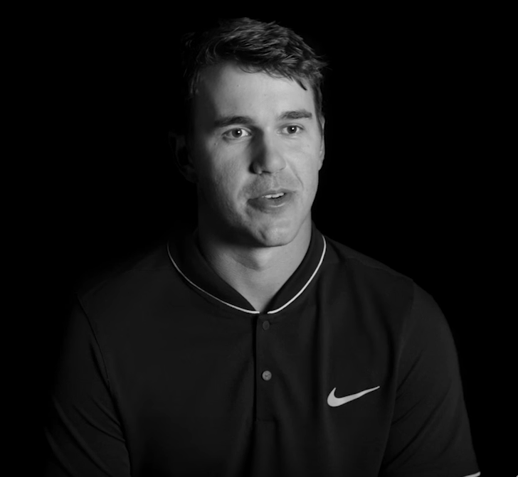 Koepka in a 2016 Nike promotional CC-BY video